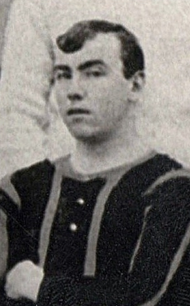 Fred Connelly while with Brentford FC 1908/09